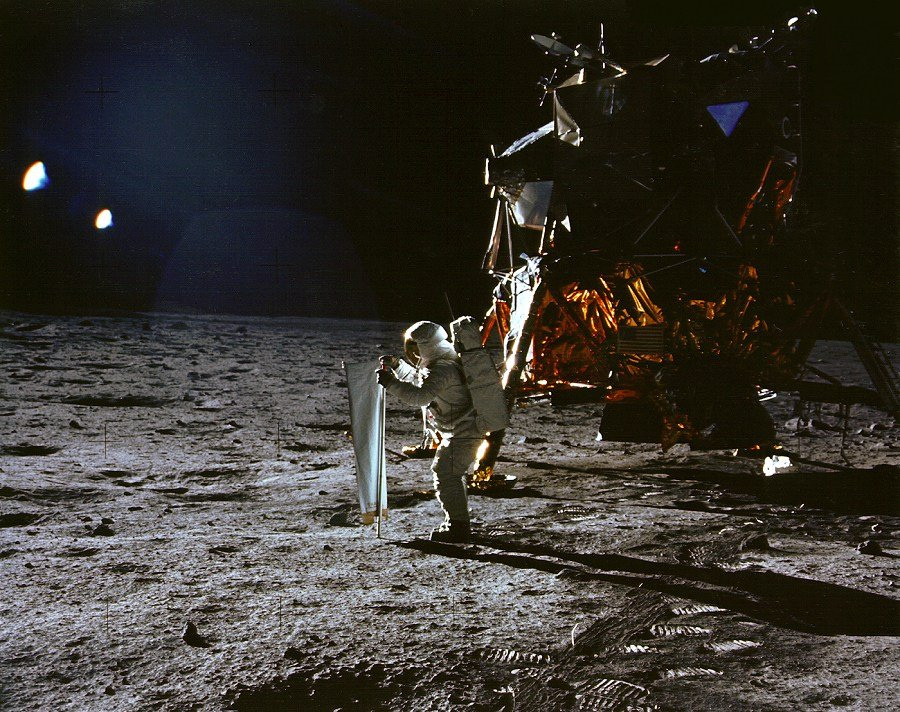 (July 20, 1969) Bright sunlight glints and long dark shadows dramatize this image of the lunar surface taken by Apollo 11 astronaut Neil Armstrong, the first to walk on the Moon. Pictured is the mission's lunar module, the Eagle, and spacesuited lunar module pilot Buzz Aldrin unfurling a long sheet of foil also known as the Solar Wind Collector. Exposed facing the Sun, the foil trapped atoms streaming outward in the solar wind, ultimately catching a sample of material from the Sun itself. Along with moon rocks and lunar soil samples, the solar wind collector was returned for analysis in earthbound laboratories.